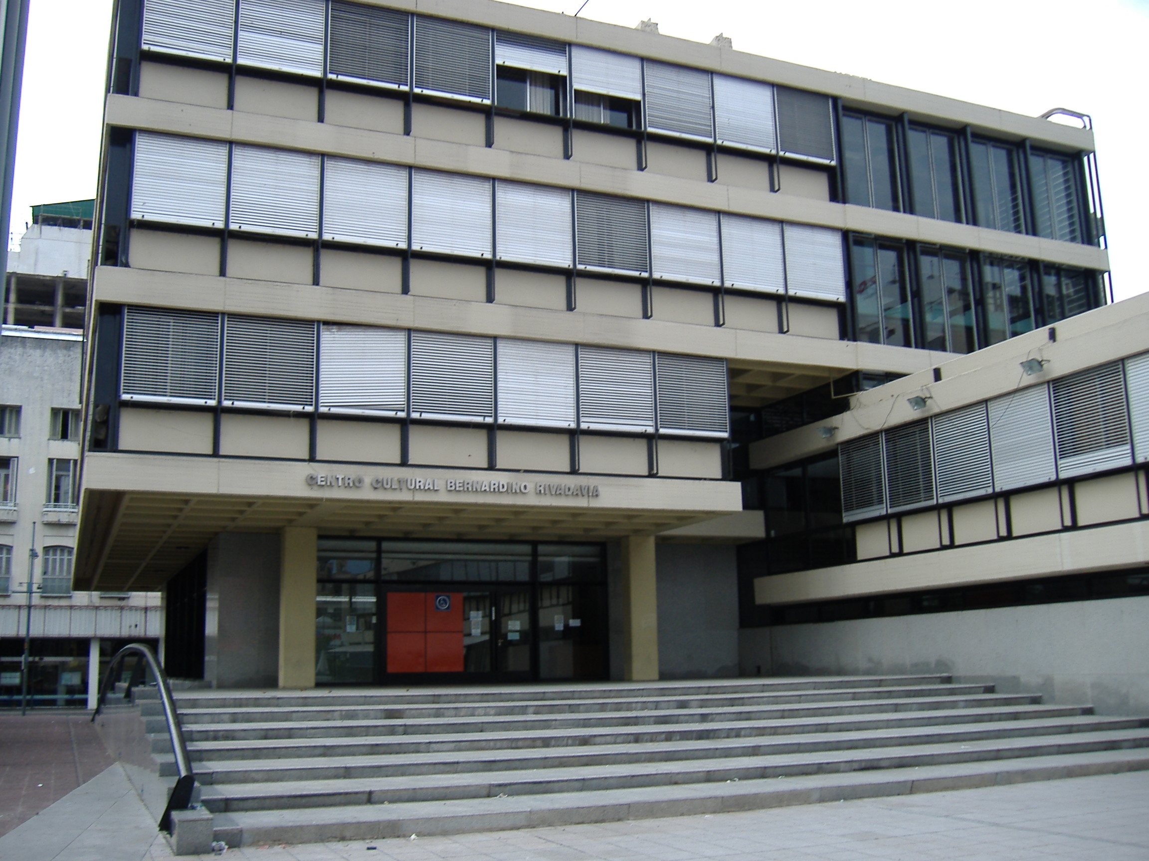 Bernardino Rivadavia Culture Centre, located within the Rosario, Argentina.